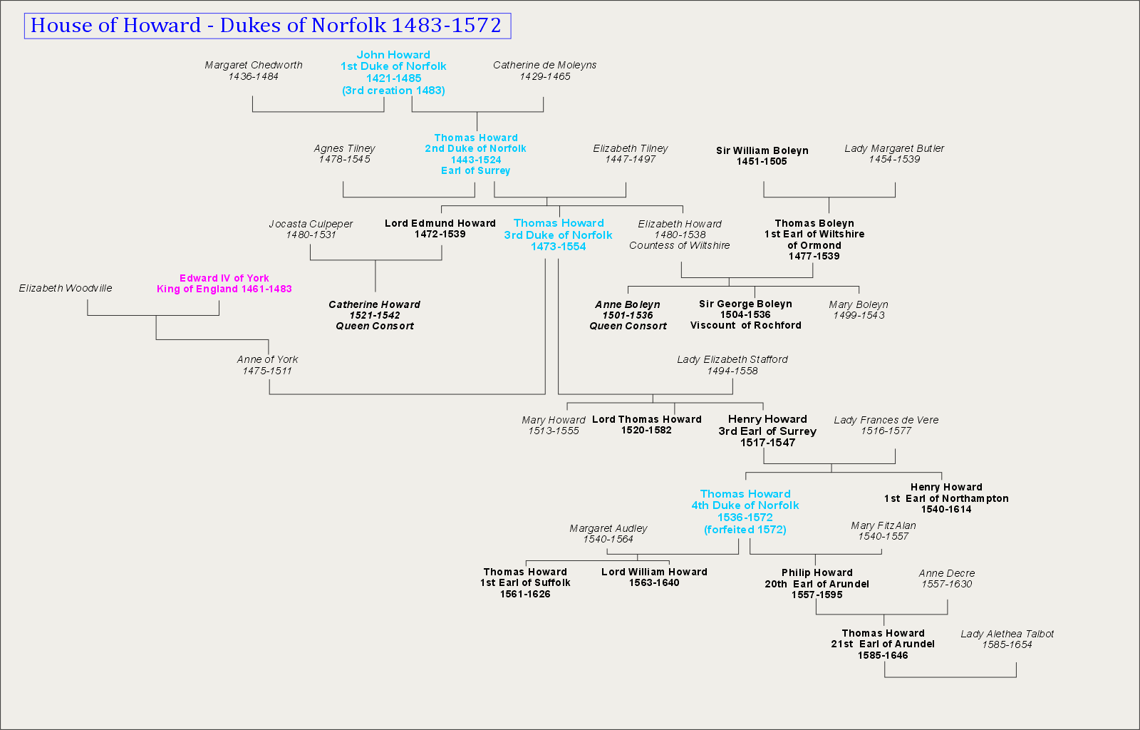 House of Howard Dukes of Norfolk 3rd creation